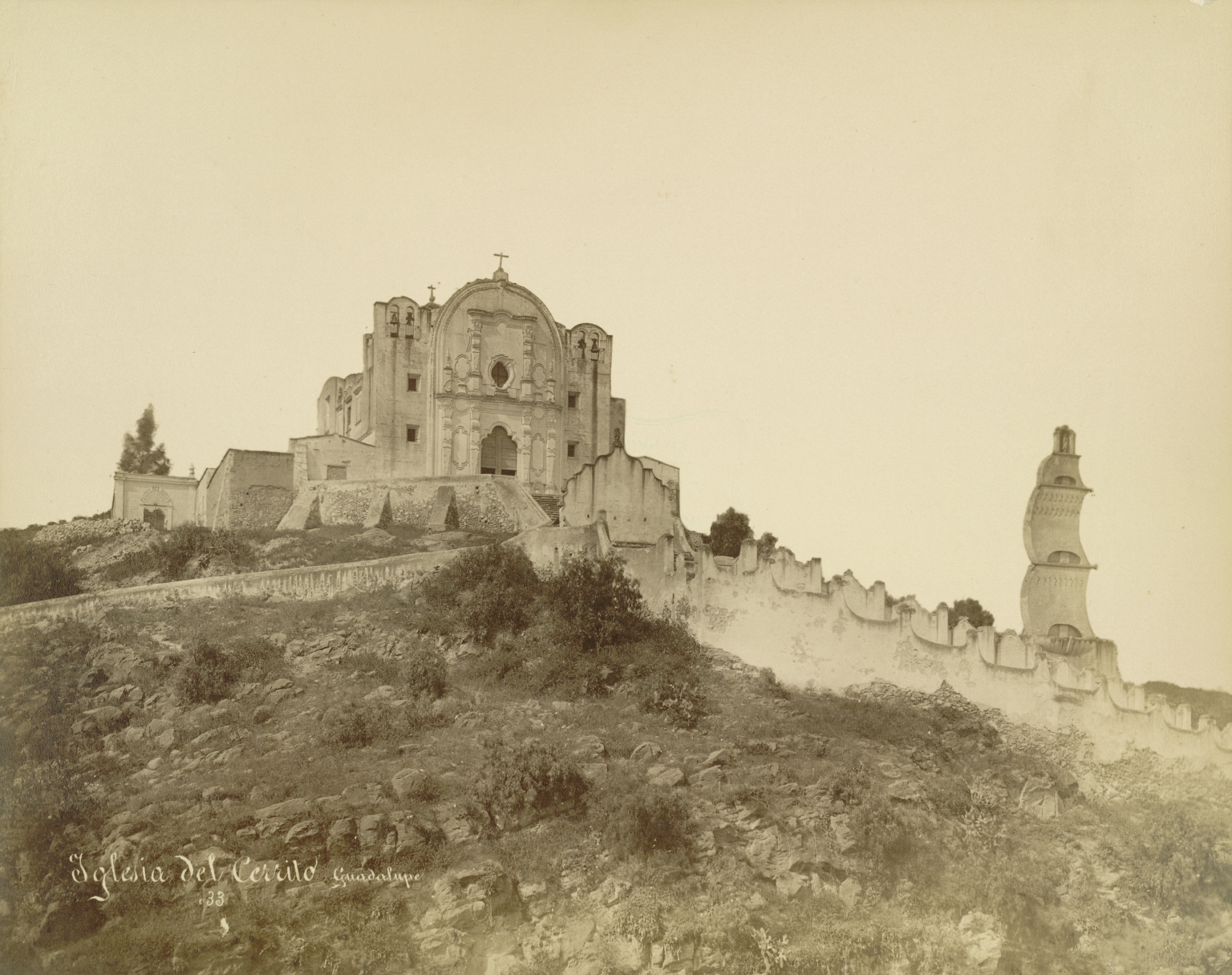 Collection: A. D. White Architectural Photographs, Cornell University Library Accession Number: 15/5/3090.00678 Title: The "Cerrito" Church of the Basilica of Our Lady of Guadalupe Photograph date: ca. 1865-ca. 1895 Location: North and Central America: Mexico; Mexico City Materials: albumen print Image: 8 5/8 x 10 7/8 in.; 21.9075 x 27.6225 cm Provenance: Transfer from the College of Architecture, Art and Planning Persistent URI: There are no known U.S. copyright restrictions on this image. The digital file is owned by the Cornell University Library which is making it freely available with the request that, when possible, the Library be credited as its source. We had some help with the geocoding from